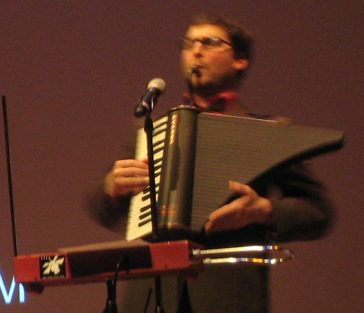 Michael (former harmonica technician at Hohner) is on the claviola. This band is amazing. Go buy their stuff